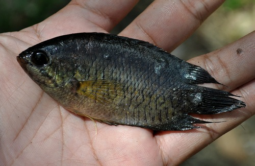 Belontia hasselti, TL 95mm, from Nek Cikam, Sanggau, West Kalimantan